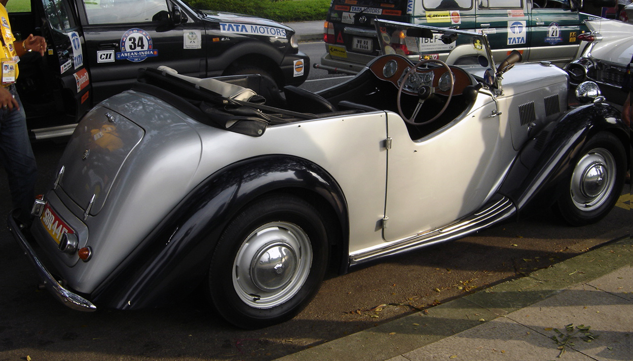 MG YT Tourer in Singapore, 2004